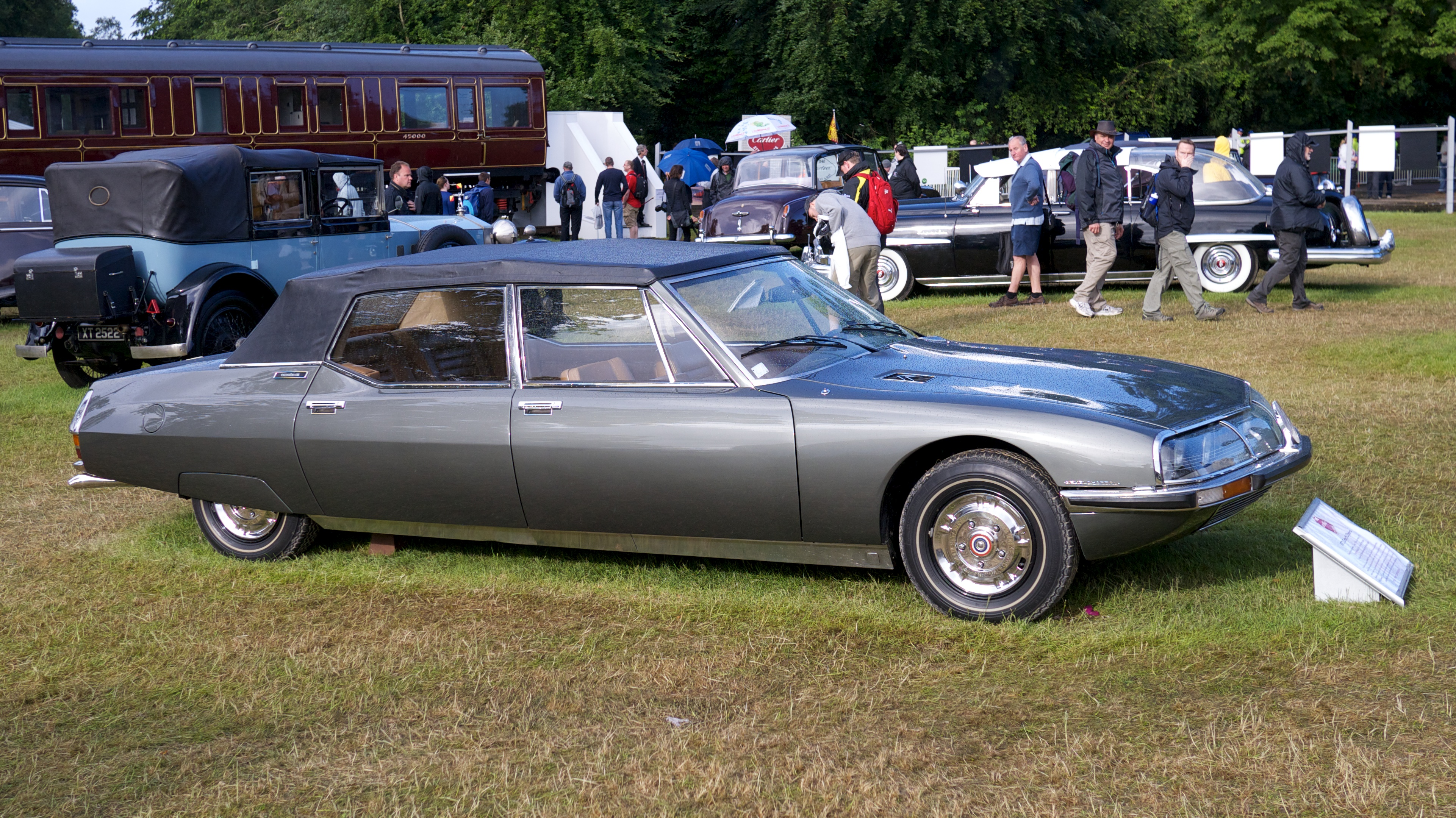 1972 Citroën SM présidentielle. Photograph taken at Goodwood Festival of Speed 2012.